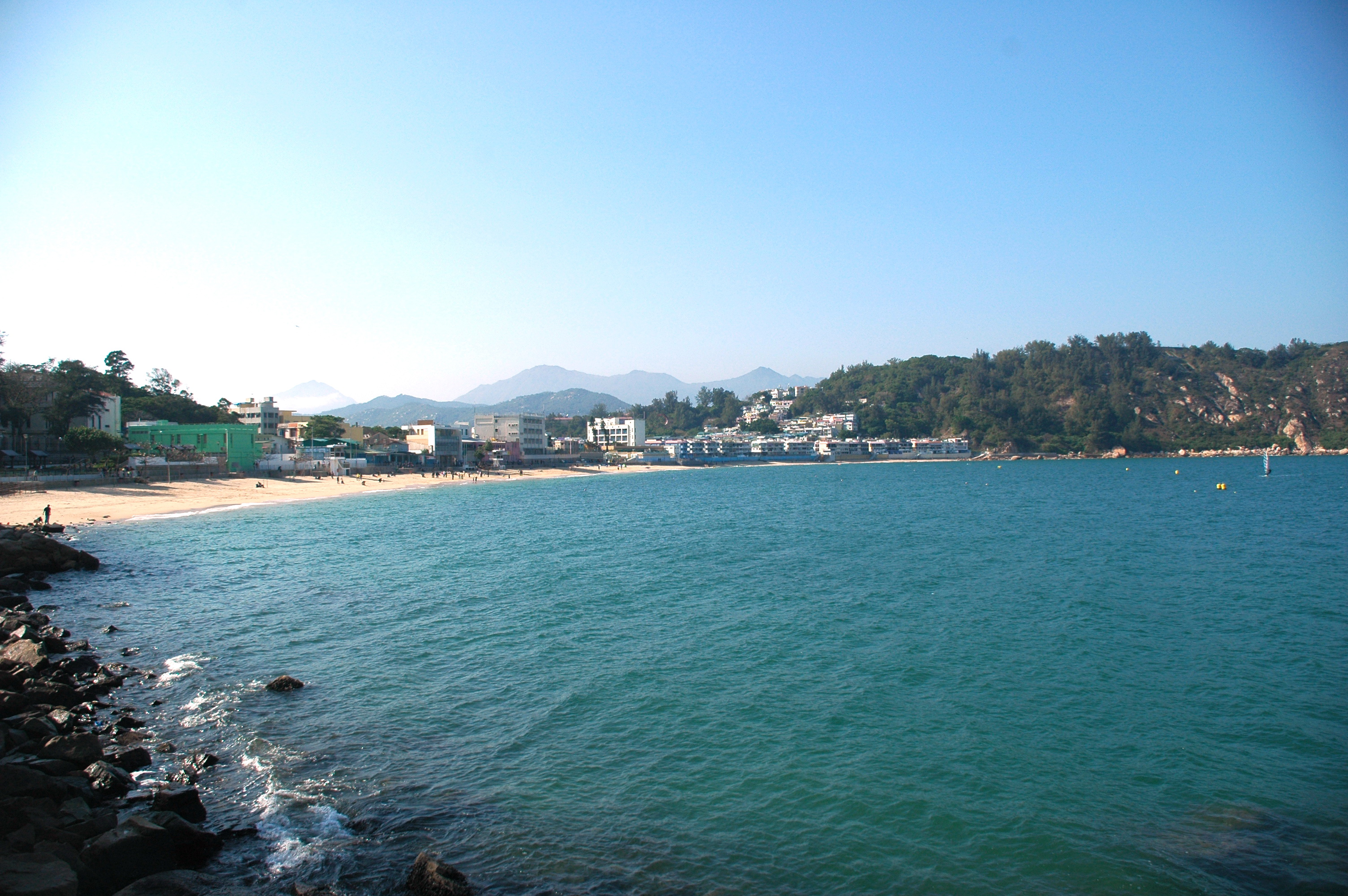 Cheung Chau Tung Wan Beach, Cheung Chau, Hong Kong.